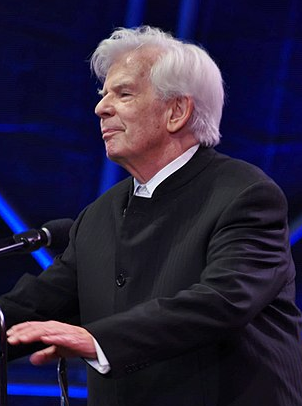 Cropped version of larger photograph of subject.